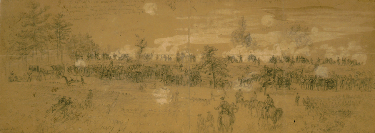 Published in: Harper's Weekly, August 9, 1862, pp. 504-505. Inscribed lower left: June 30th. Inscribed above image: The 16th N.Y. all wore white straw hats and were without knapsacks but wore the haversack and canteen. They laid down preserving their lines — in varied positions. Their duty being to support the artillery. the 27th N.Y. Same as the 16 — but without straw hats.